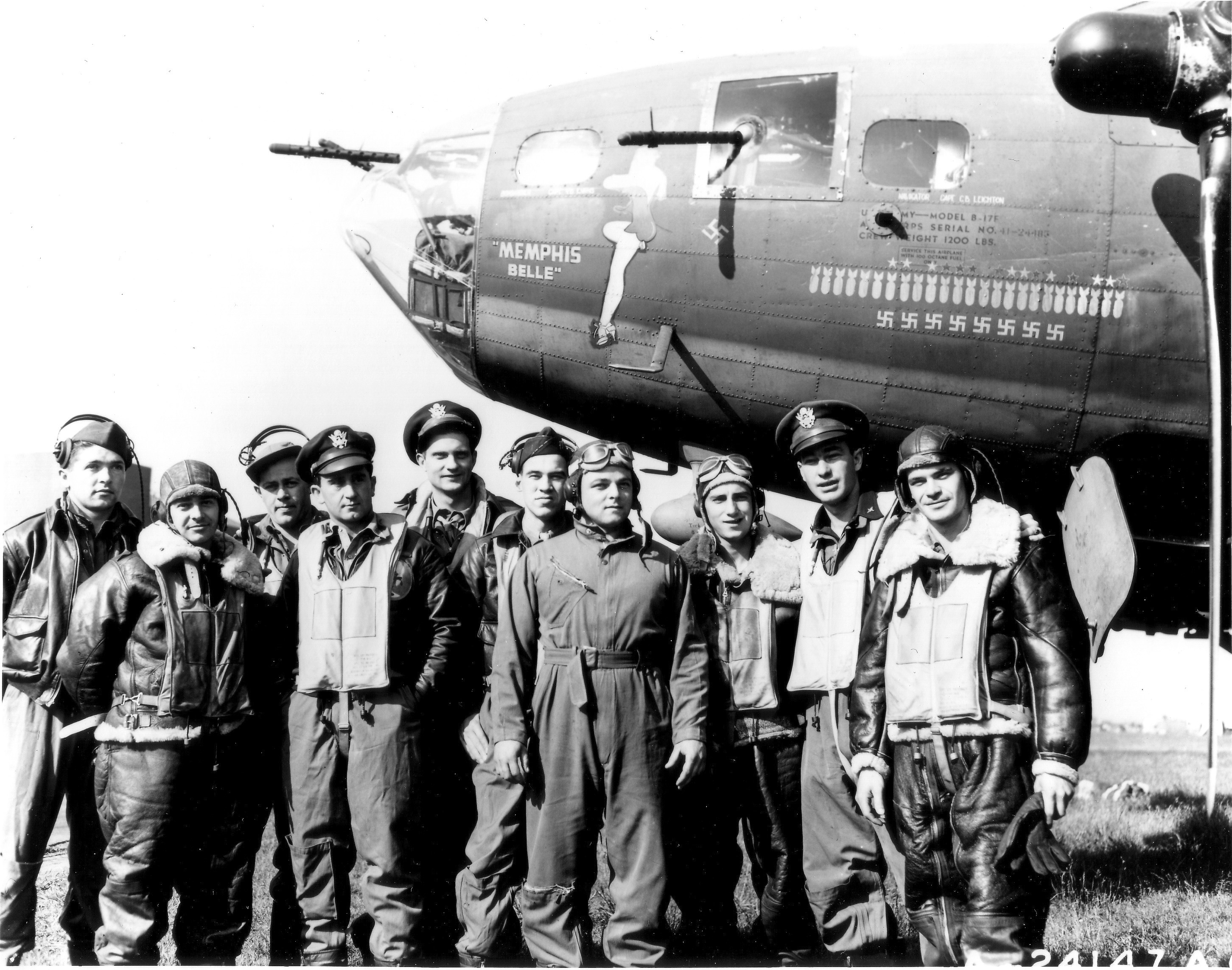 The "Memphis Belle" crew shown at an air base in England after completing 25 missions over enemy territory on June 7, 1943. Left to right: Tech. Sgt. Harold P. Loch, top turret gunner; Staff Sgt. Cecil H. Scott, ball turret gunner; Tech. Sgt. Robert J, Hanson, radio operator; Capt. James A. Verinis, co-pilot; Capt. Robert K. Morgan, pilot; Capt. Charles B. Leighton, navigator; Staff Sgt. John P. Quinlan, tail gunner; Staff Sgt. Casimer A. Nastal, waist gunner; Capt. Vincent B. Evans, bombardier and Staff Sgt. Clarence E. Wichell, waist gunner.